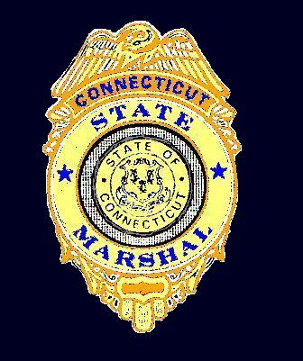 A badge that is worn by Connecticut State marshals.